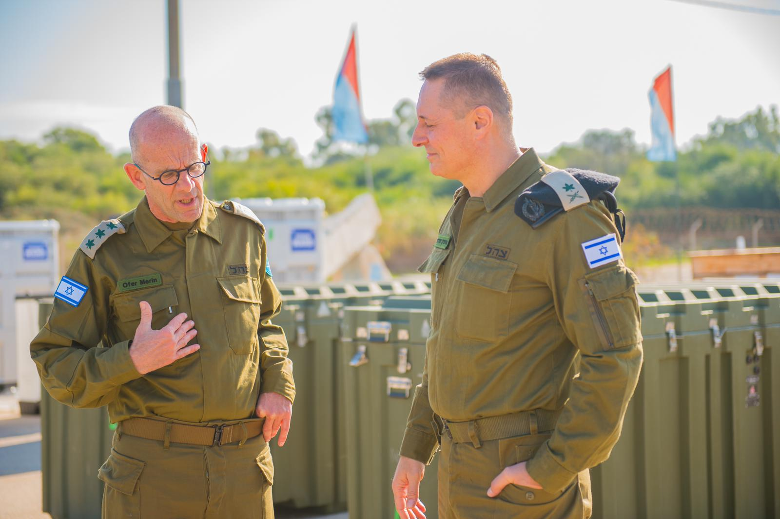 IPRED - The 6th International Conference on Preparedness & Response to Emergencies & Disasters 12 – 15 January 2020, Israel.